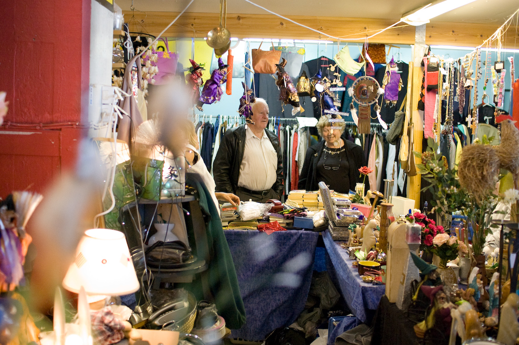 I wish the old couple were better visible in the photo but it still has some charm for me. Perhaps it's all the colourful junk?